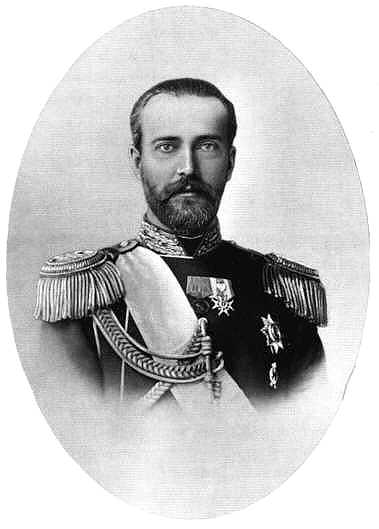 Georg Leichtenberg